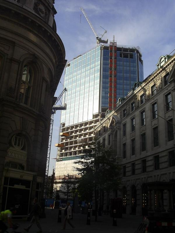 London Stock Exchange Tower, street level view, May 2007